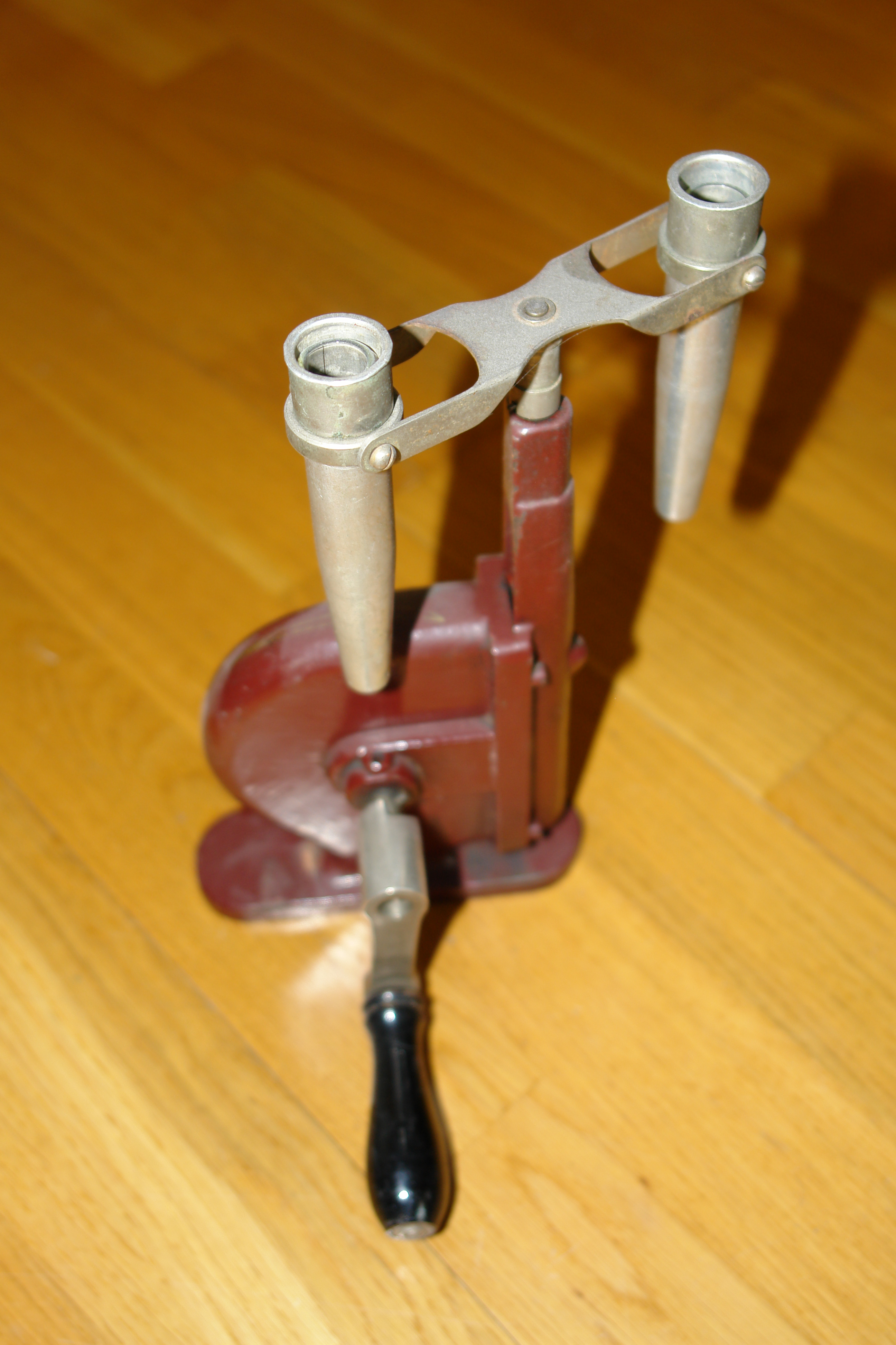 centrifuge with handwheel.